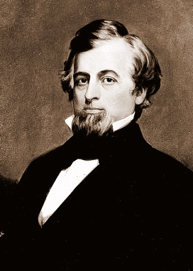 William A. Barstow, third governor of Wisconsin